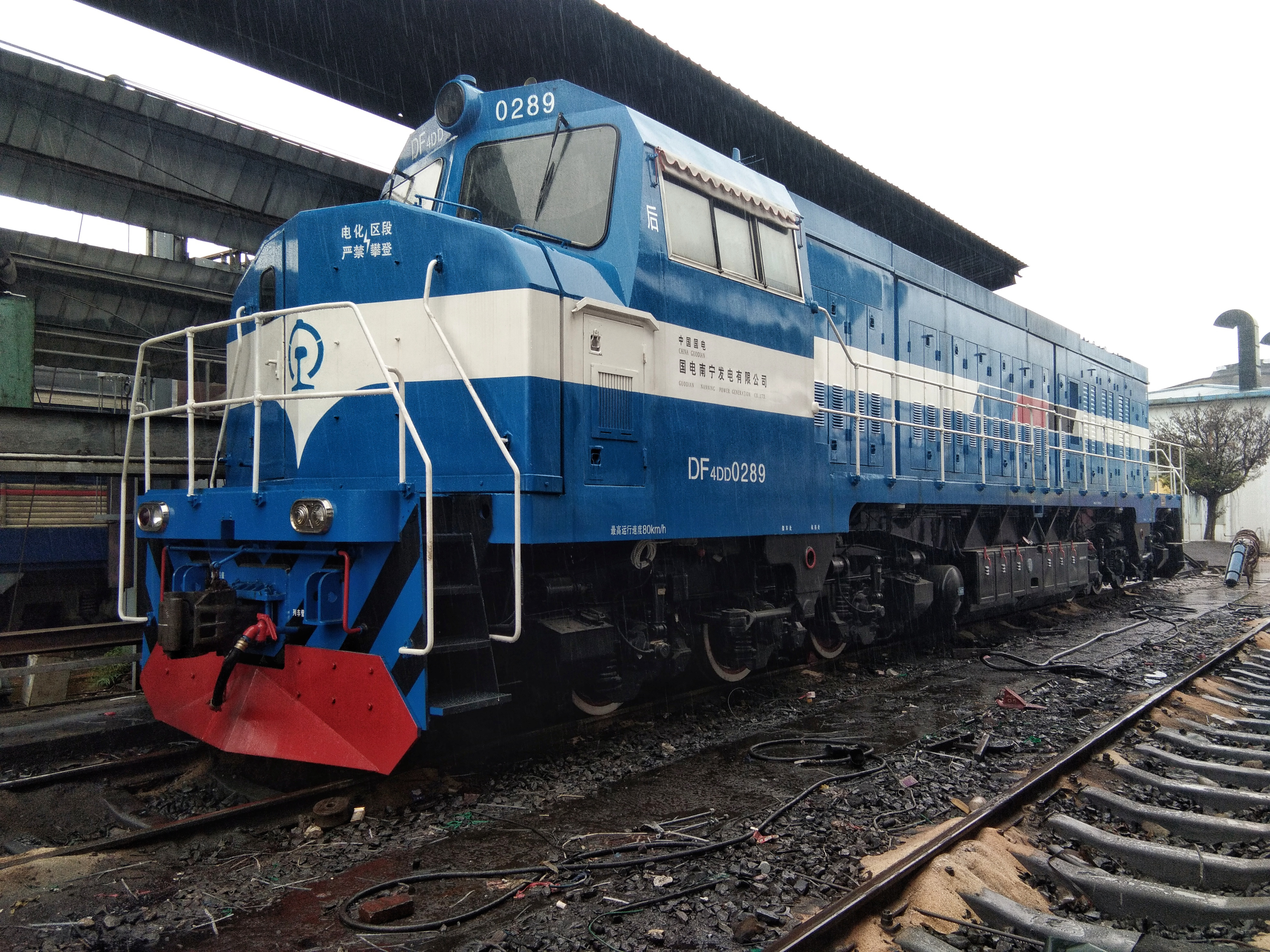 Guodian Nanning Power Generation Co.Ltd's DF4DD-0289 in Liuzhou Locomotive and Rolling Stock Works, November 2017.